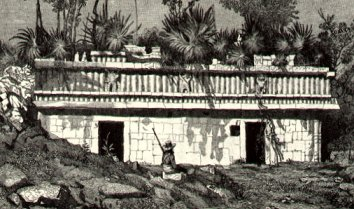 Maya Puuc style building, Chunhuhub, Campeche State; 19th century engraving by Frederick Catherwood.